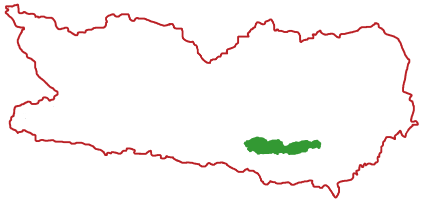 Map of Carinthia showing mountain Sattnitz - Karte von Kärnten mit Sattnitz